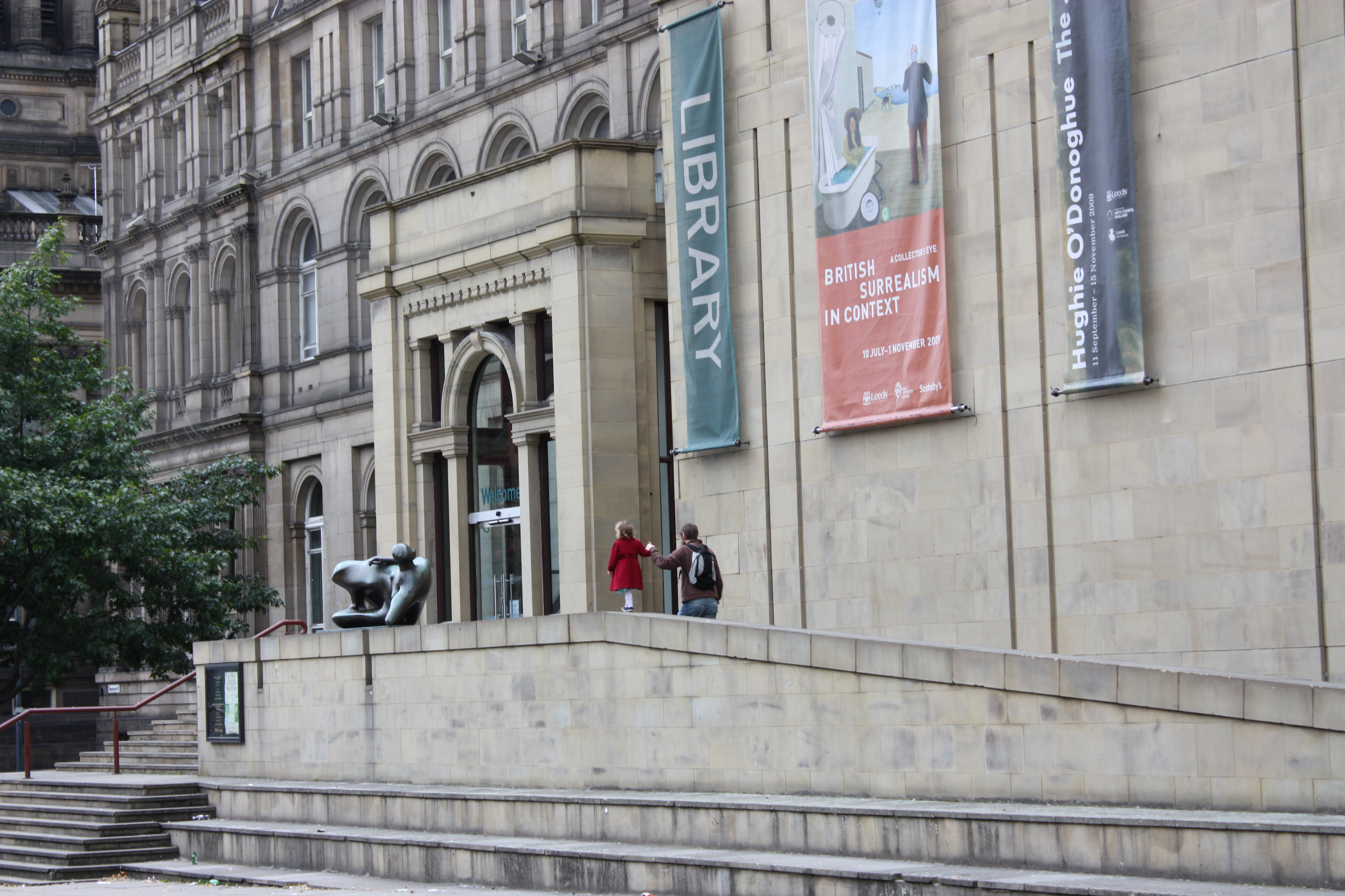 Leeds Art Gallery, The Headrow, Leeds, West Yorkshire, England, September 2009